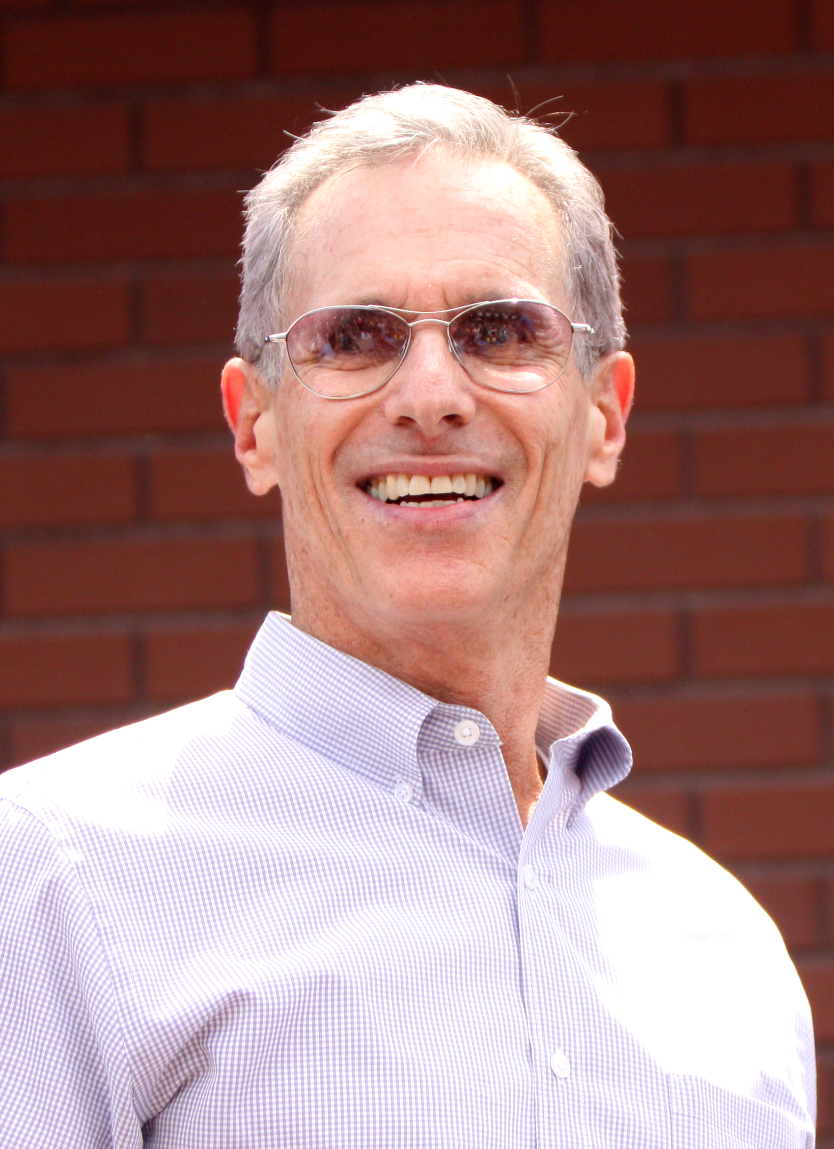 Fred Karger at the Iowa State Fair in Des Moines, Iowa.